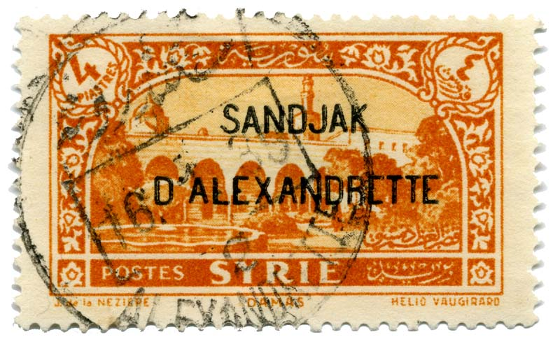 Scan of Alexandretta 4pi stamp of